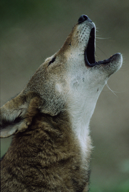 Visitors come to hear endangered red wolves howl at Alligator River National Wildlife Refuge, NC.